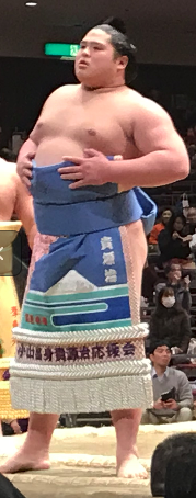 Taken at 2018 tournament